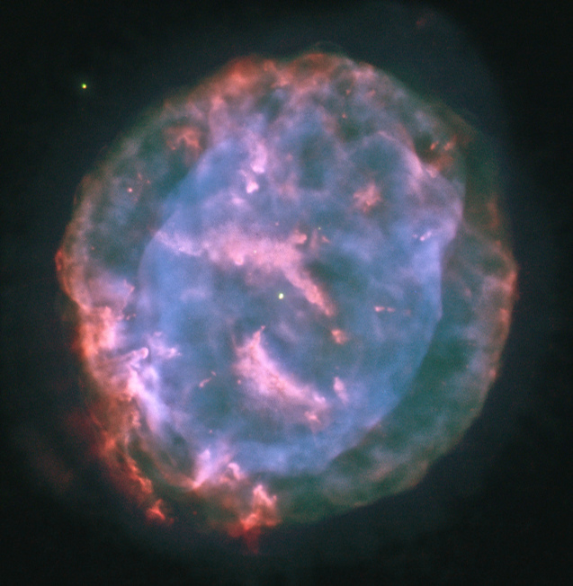 Can't sleep, black holes will eat me... Red: hst_08773_02_wfpc2_f658n_pc_drz Green: hst_07501_02_wfpc2_f555w_pc_drz Blue: hst_08773_02_wfpc2_f502n_pc_drz North is NOT up.